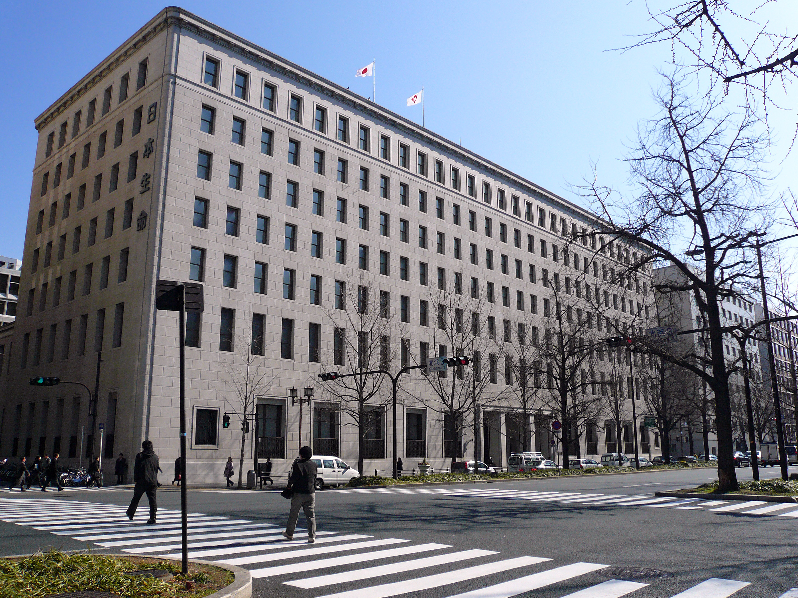 Mido-suji street in Osaka, Osaka prefecture, Japan